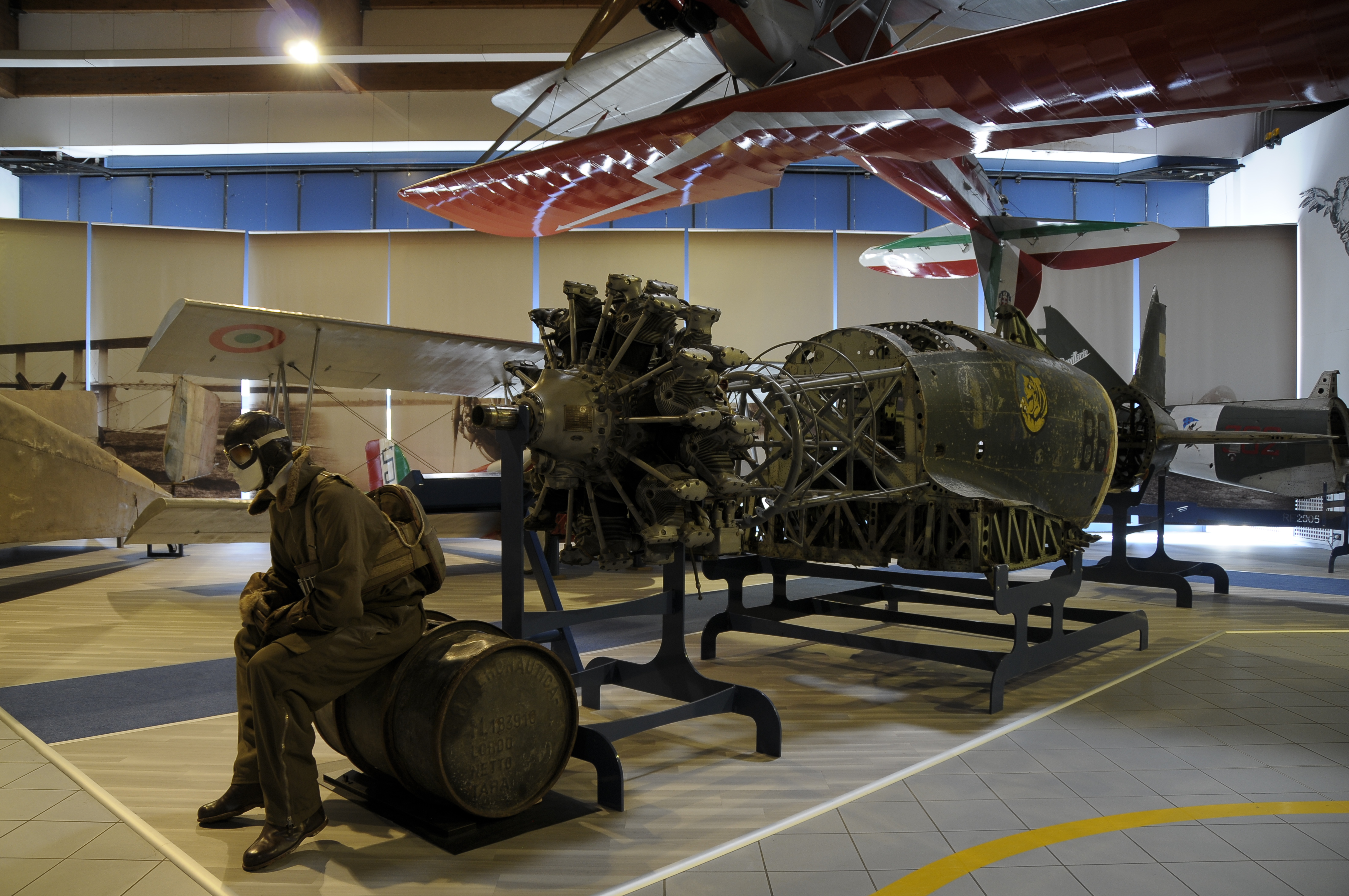 The Macchi M.C.200 in the main hall of the Gianni Caproni Museum of Aeronautics in Trento, Italy.